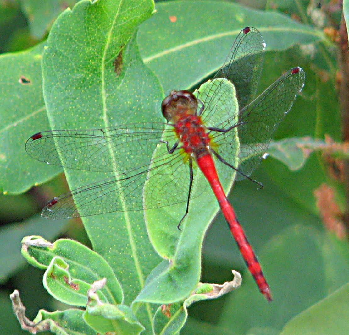 White-faced Meadowhawk (Sympetrum obtrusum), male, Temagami, Ontario